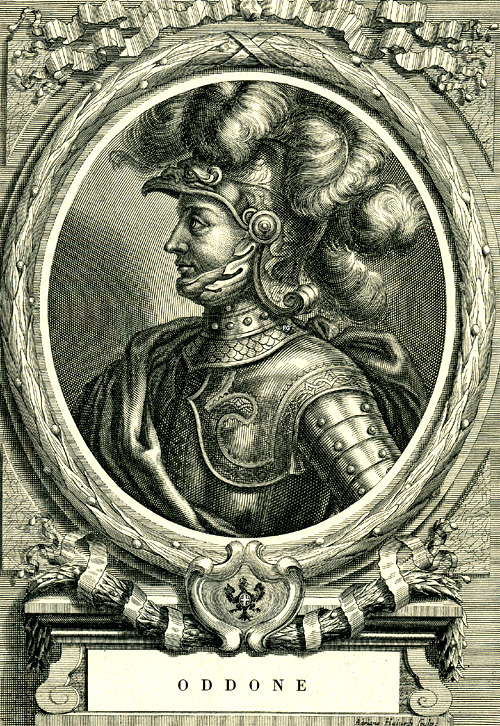 Oddone of Savoy (XI century A.D.)